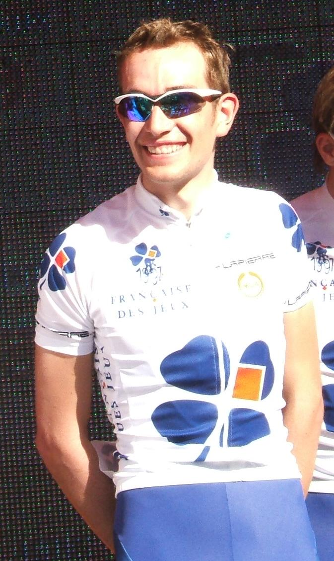 Named cyclist at the en:2009 Tour Down Under team presentation